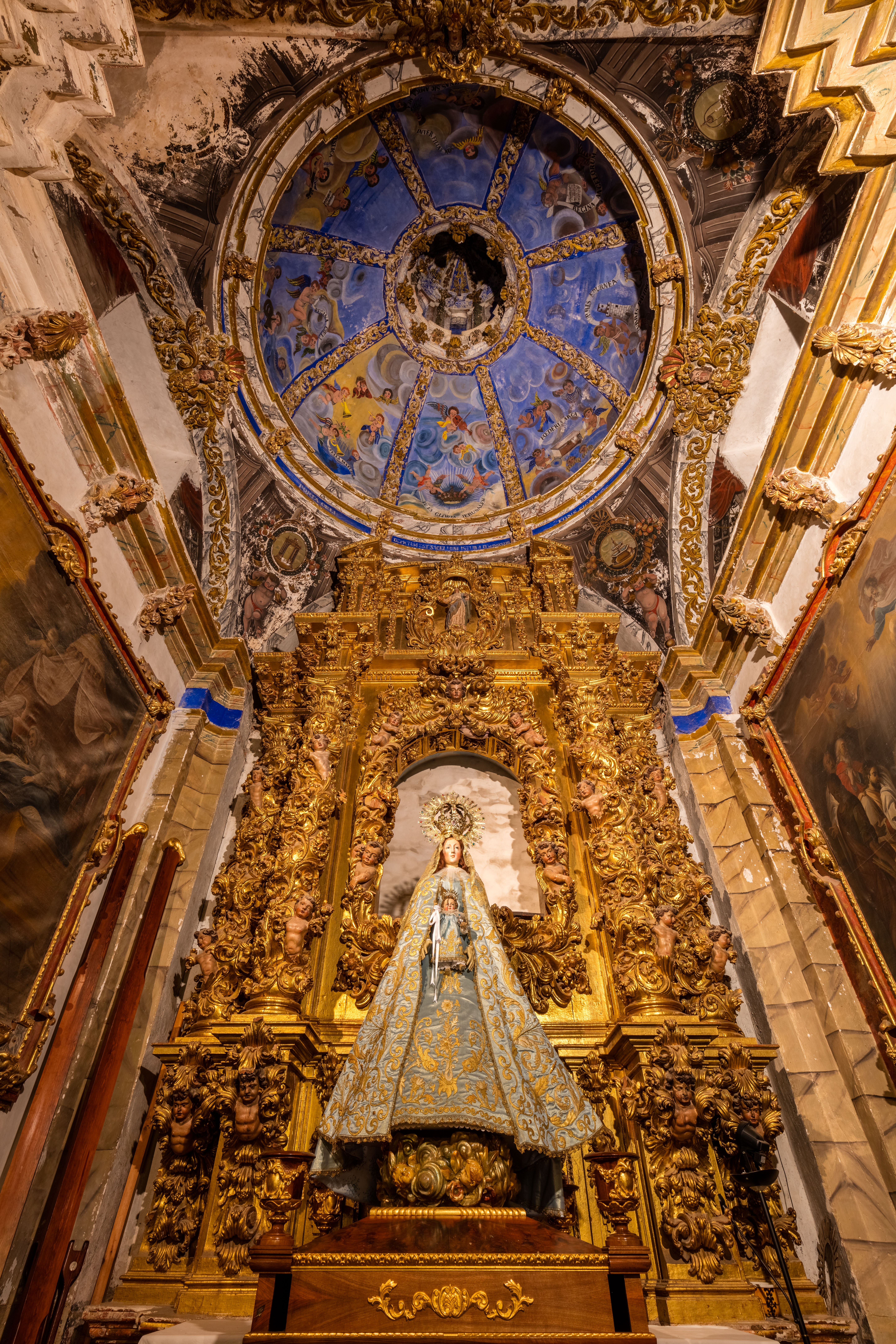 Image of the Virgin of Los Remedios ("Lady of the Cures") in the homonymous Baroque chapel of the church of John the Baptist, Ágreda, province of Soria, Castile and León, Spain. The chapel was built in 1697 by Count of Villarea. The originally Romanesque church (visible in its portal) was built in the second half of the 12th century and reworked in the 16th century with Gothic, Renaissance and Baroque elements, while the reredos behind the image dates from the 18th century.